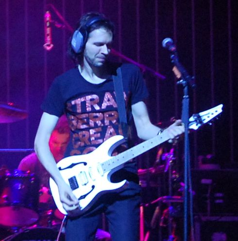 g3 live, Massey Hall